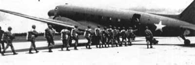 A stick of Marines boards an R4D (the Corps' variant of the Army C-47). This transport could carry 25 jumpers out to a range of 1,600 miles. Photo courtesy of MSgt W. F. Gemeinhardt, USMC (Ret)